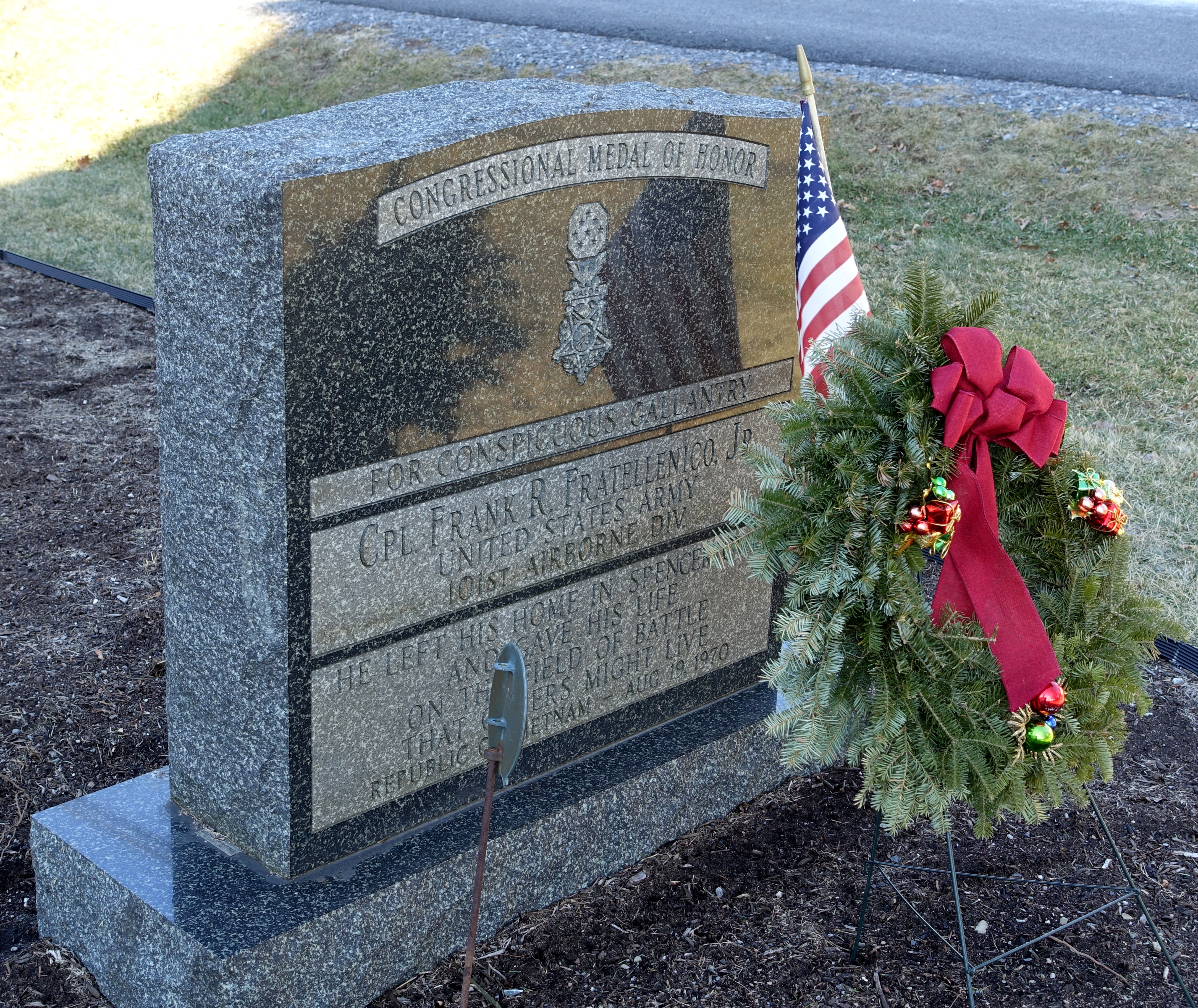 Frank R. Fratellenico memorial, Congressional Medal of Honor - Austerlitz, New York, USA.